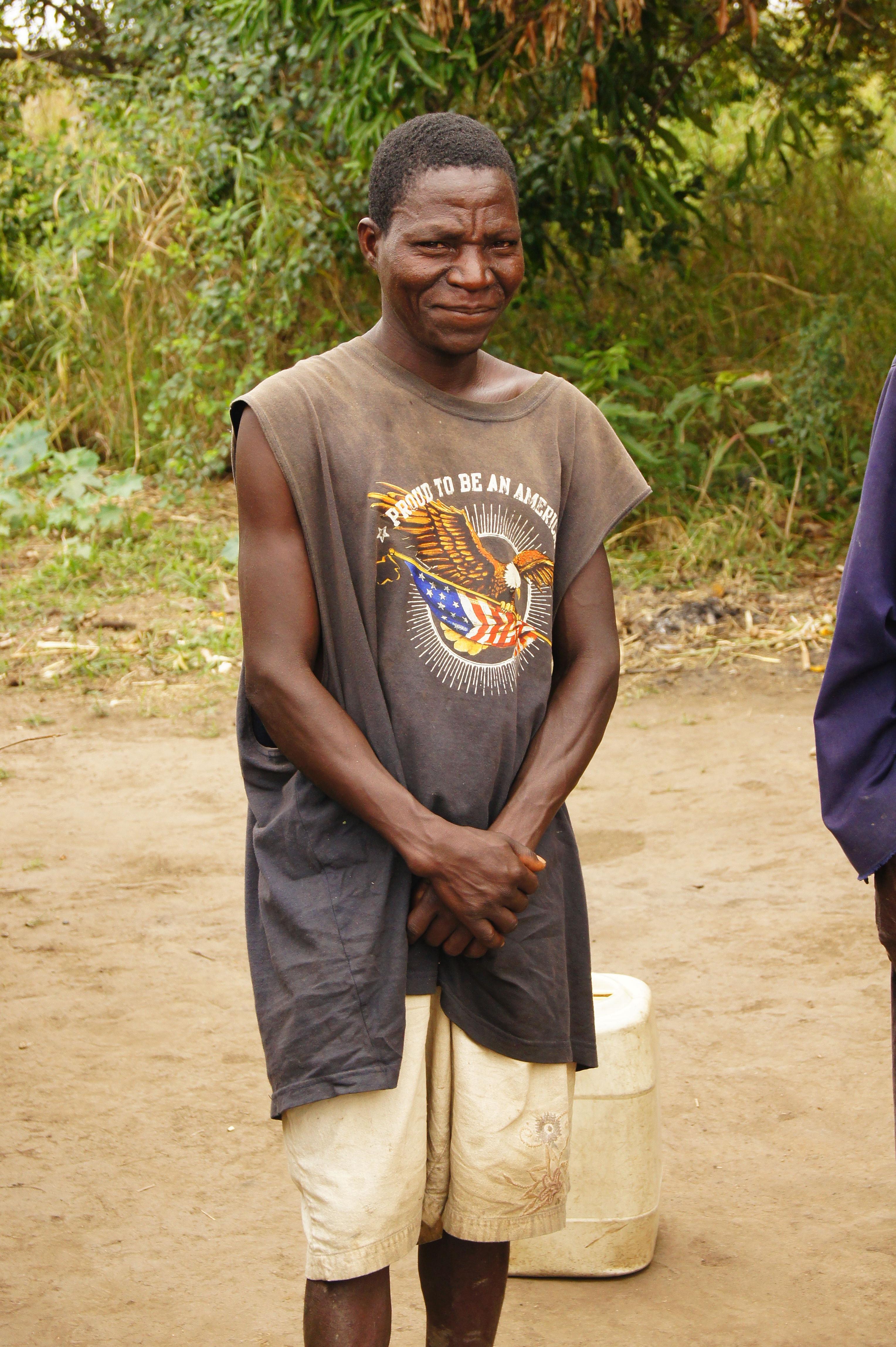 The irony of this man's shirt is not understood in this Portuguese speaking nation, most can't even speak Portuguese. This man speaks Sena only. This is an image of Cultural Fashion or Adornment from Mozambique